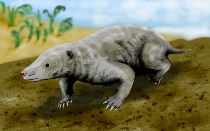 Fruitafossor windscheffeli, an early termite-eating mammal from the Late Jurassic of Colorado, digital